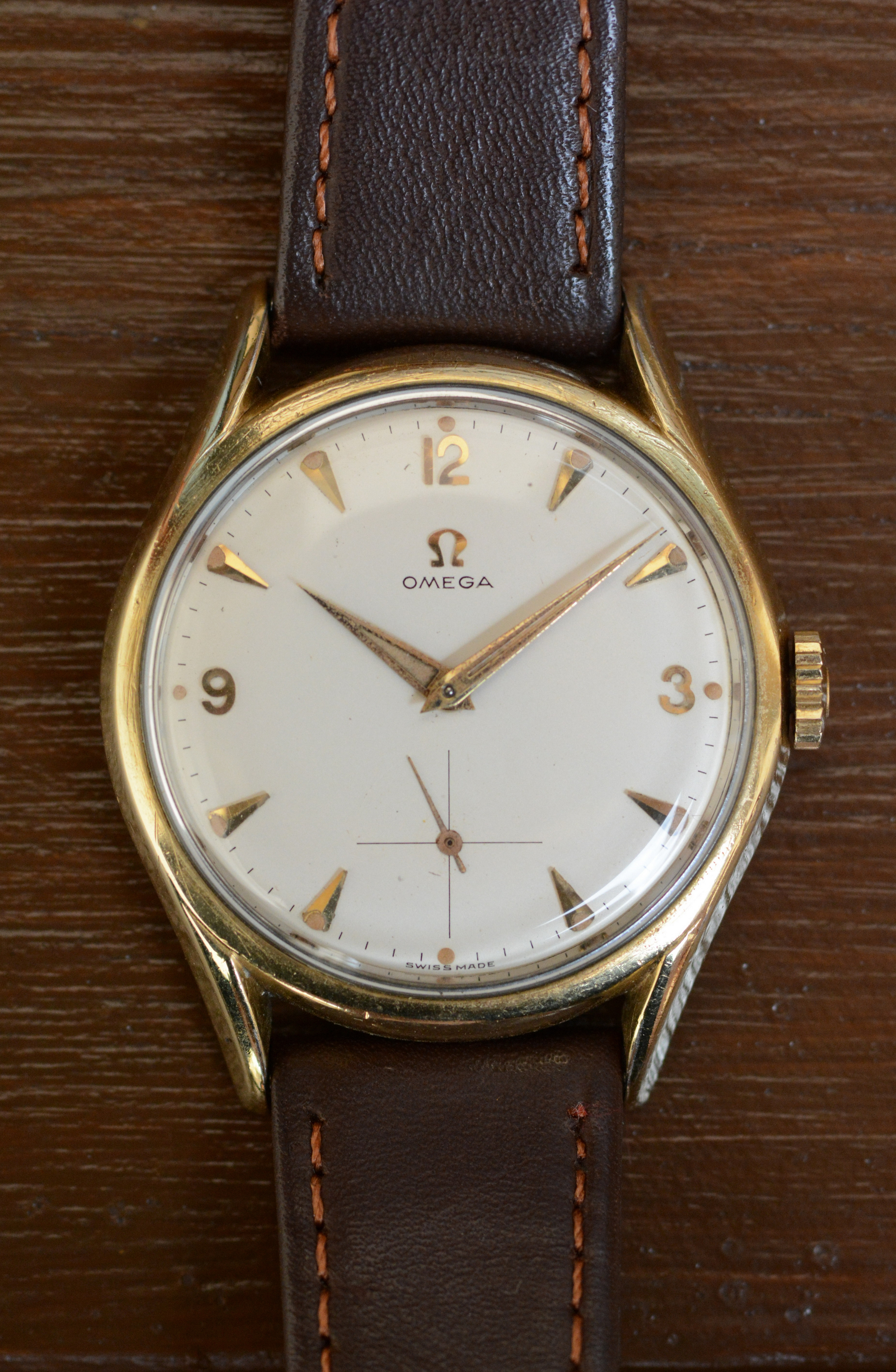 Omega, Cal. 267, 1957/58